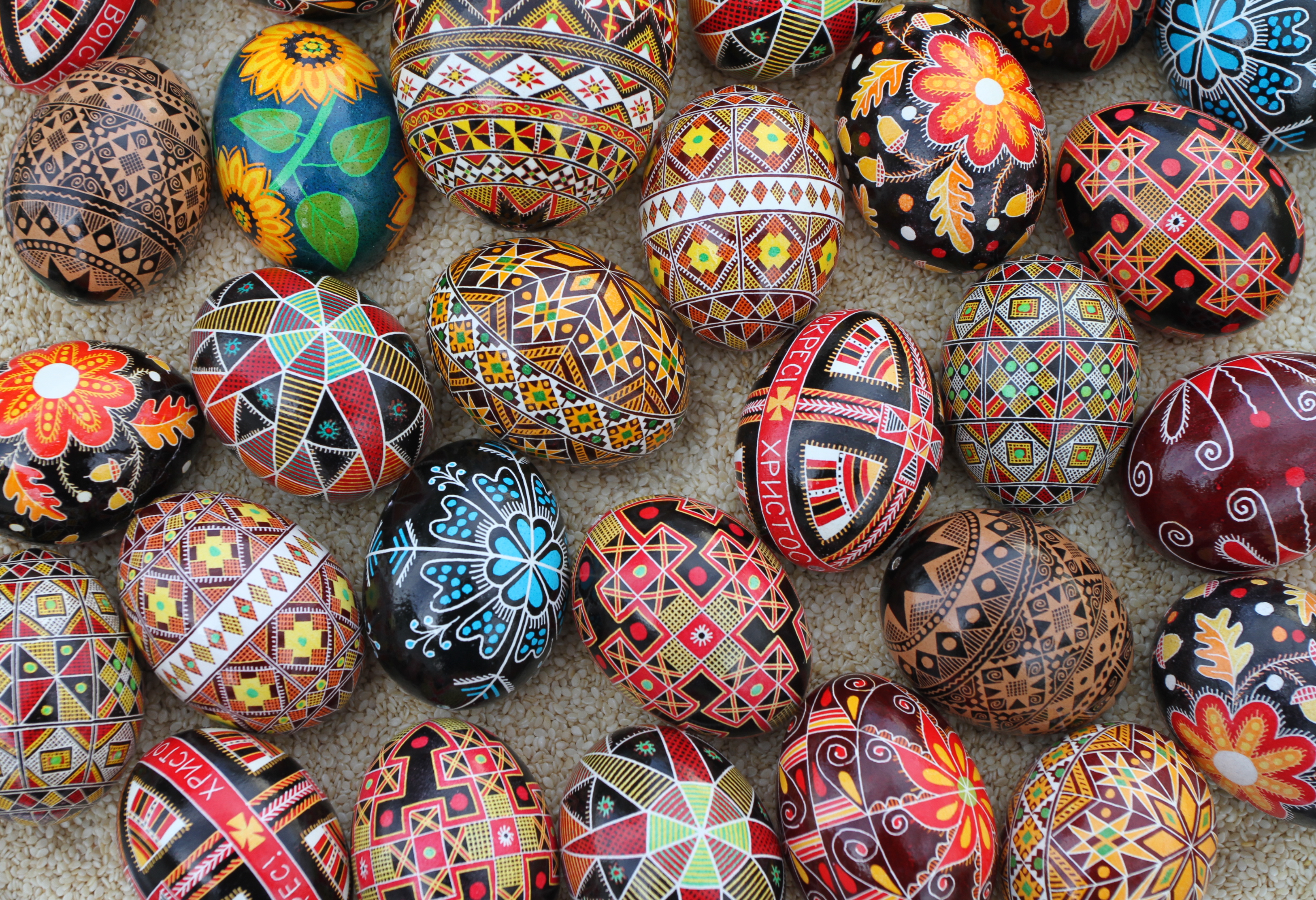 A mix of traditional Ukrainian, diasporan and original pysanky (Ukrainian Easter eggs)